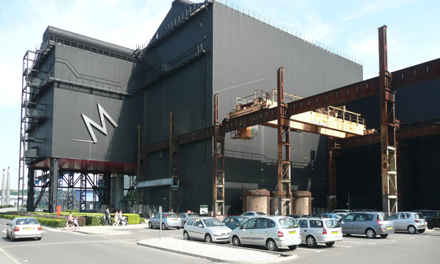 'Magna' Old steel works converted to a science museum near Sheffield